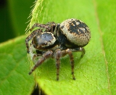 female Carrhotus xanthogramma from Japan.